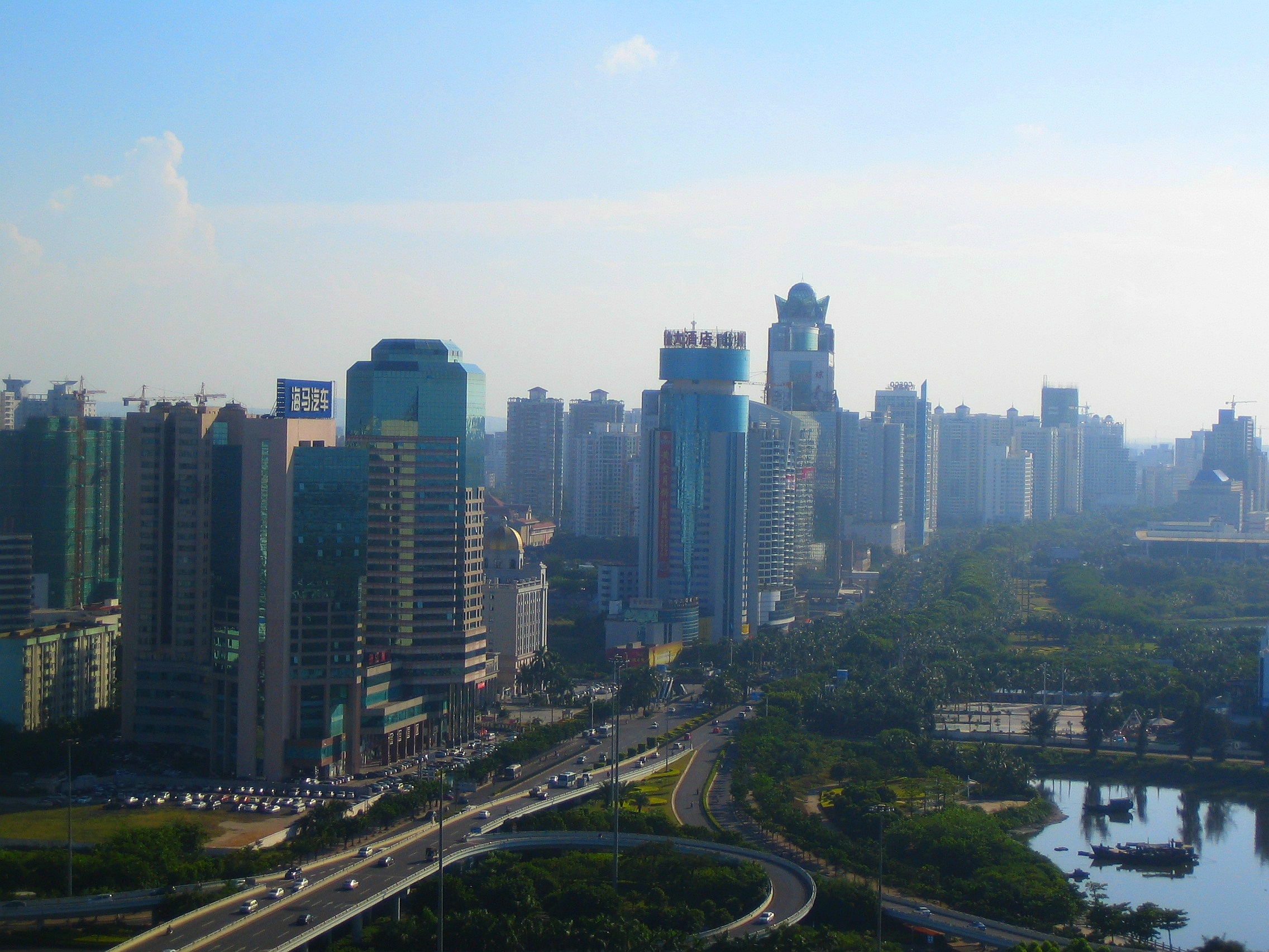 Haikou skyline, Hainan Province, China